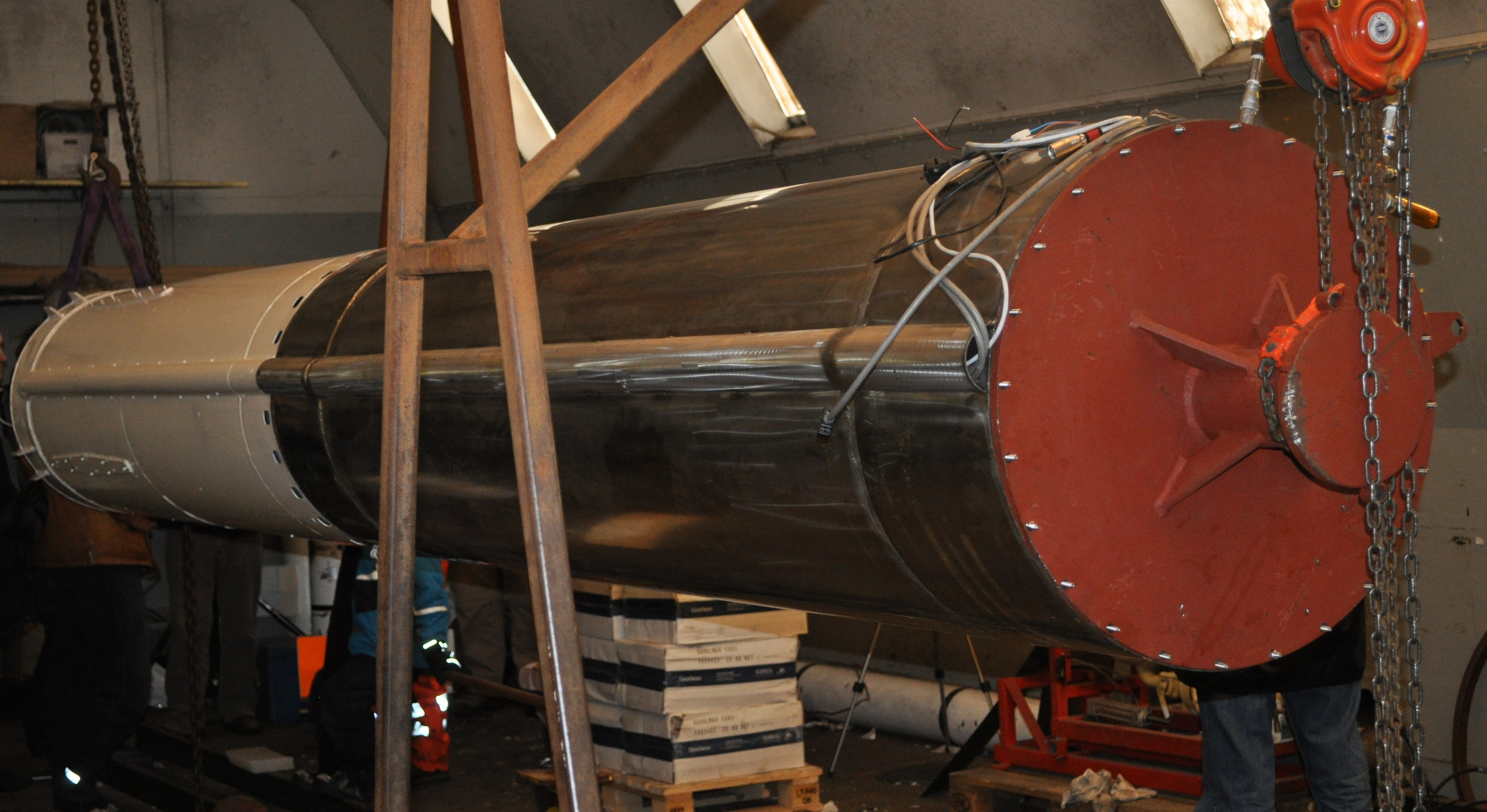 Half-length (4 m) version of the HEAT booster (Hybrid Exo Atmospheric Transporter). The unpainted part is the LOX tank, the white part is the combined combustion chamber and fuel compartment (paraffin wax).The red plate is a handling device. The half-length HEAT is expected to launch a crash test dummy to 40 km altitude in June 2010. The full-length HEAT should be able to send one person up in space in a parabolic flight. The supersonic wedged fins are not yet fitted.